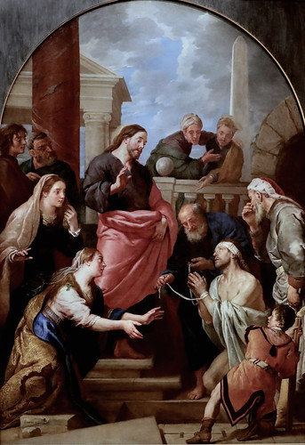 Resurrection of Lazarus by Gaspar de Crayer in de Musée des Beaux-arts of Rennes